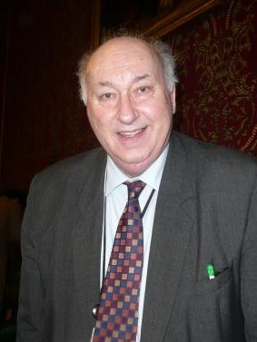 House of Commons, London.